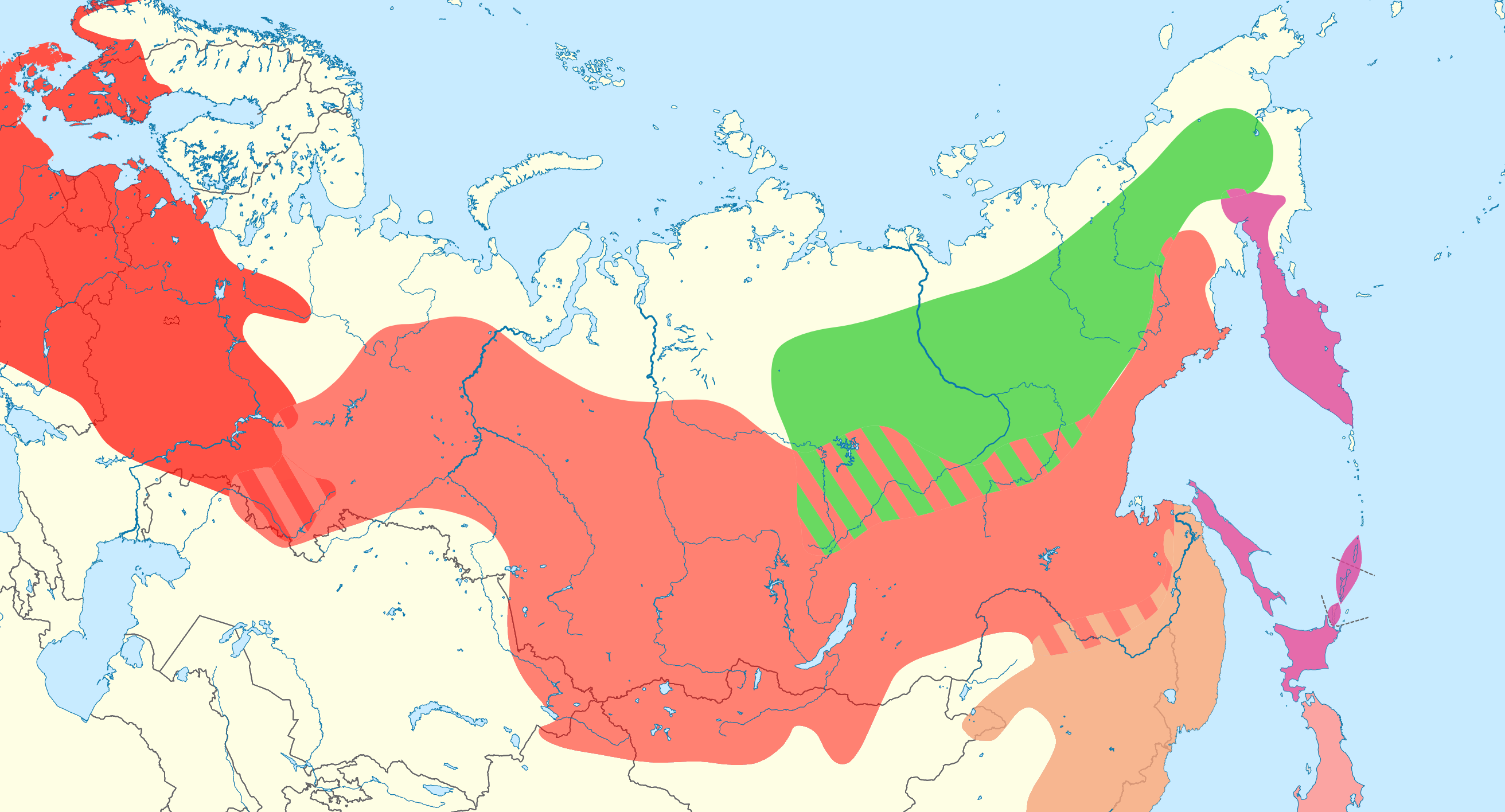 Distribution of Siberian Nutatch (Sitta arctica) and some subspecies of the Eurasian Nuthatch (Sitta europaea) in Asia